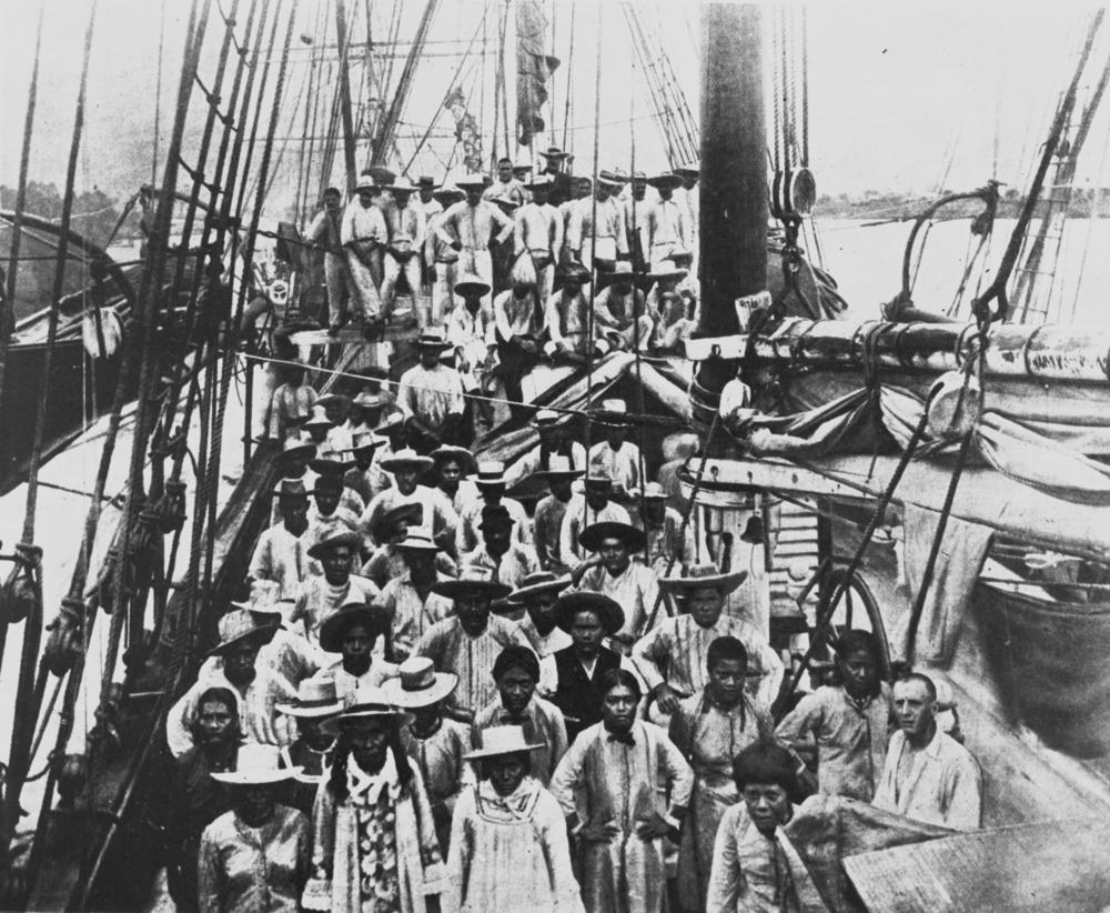 South Sea Islanders on the deck of a ship arriving at Bundaberg, 1895 South Sea Islanders labourers arriving at Bundaberg, the sugar growing centre of Queensland, to work on the sugar plantations in the area. South Sea Islanders were brought to Queensland in the 1860s to work as farm labourers (Description supplied with photograph).